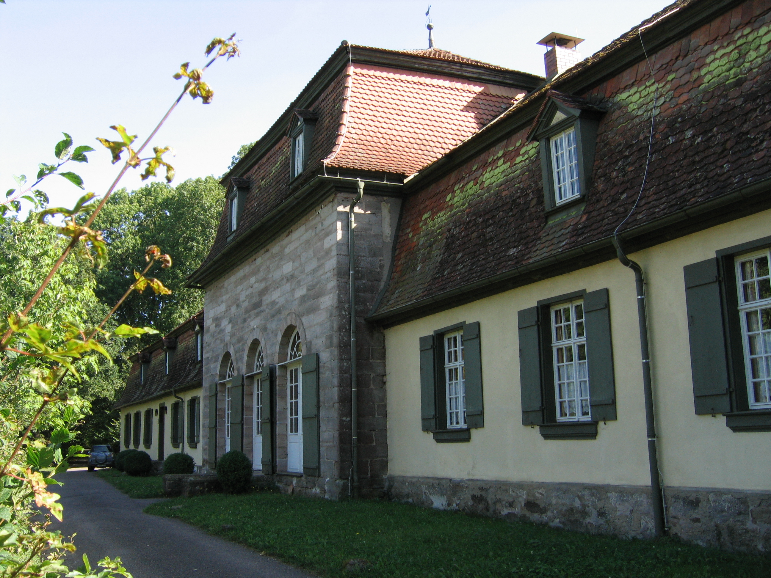 Markgrafenschloss in Burgbernheim-WildbadThis is a photograph of an architectural monument.